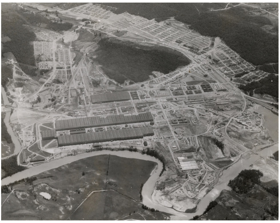 Title Aerial View of K-25 Subject Manhattan Project (U.S.) Description This aerial photograph depicts K-25 and the surrounding area. K-25 was one of the uranium enrichment facilities at Oak Ridge that produced uranium for the Manhattan Project. K-25 was horseshoe shaped and covered an area of 44-acres. In the upper part of the photograph can be seen "Happy Valley," which was the residential area where construction workers and plant laborers lived. Creator Records of the Atomic Energy Commission, Record Group 326 Source Formerly Classified Correspondence Files, 1942-1947 Date 1944-1946 Rights National Archives at Atlanta Format Still Image Language English Identifier ARC Identifier 1518690